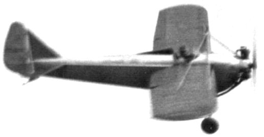 Buhl Pup in flight, owned by Joe J. Pawlicki of New London, CT. Family photo by Theodore Lowe probably taken in CT or NY in May 1936.